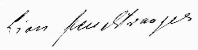 Signature of Lion Feuchtwanger